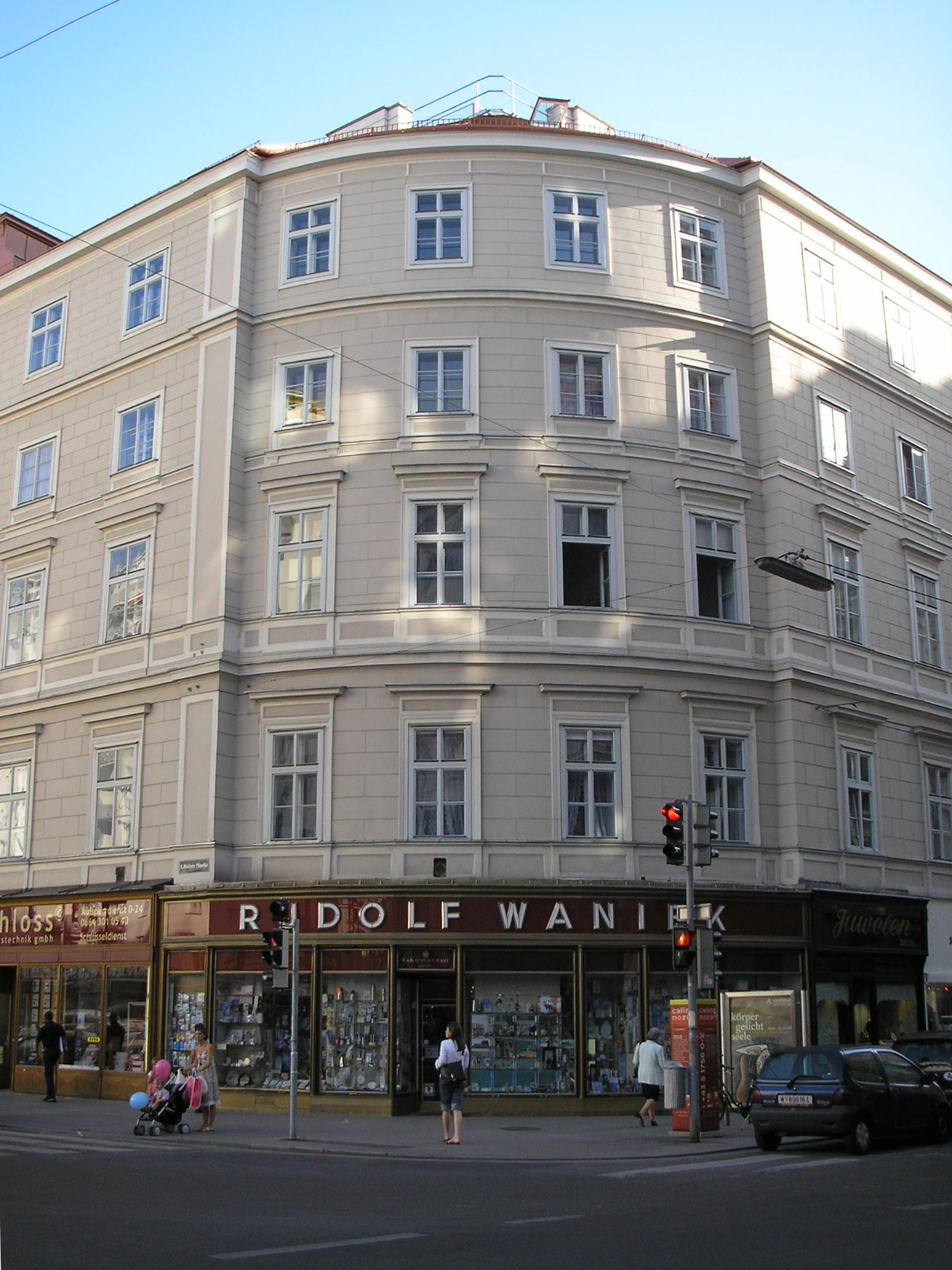 Image of a k.u.k. Hoflieferant Rudolf Waniek KG at the Hoher Markt 5 square in Vienna's first district Innere Stadt.